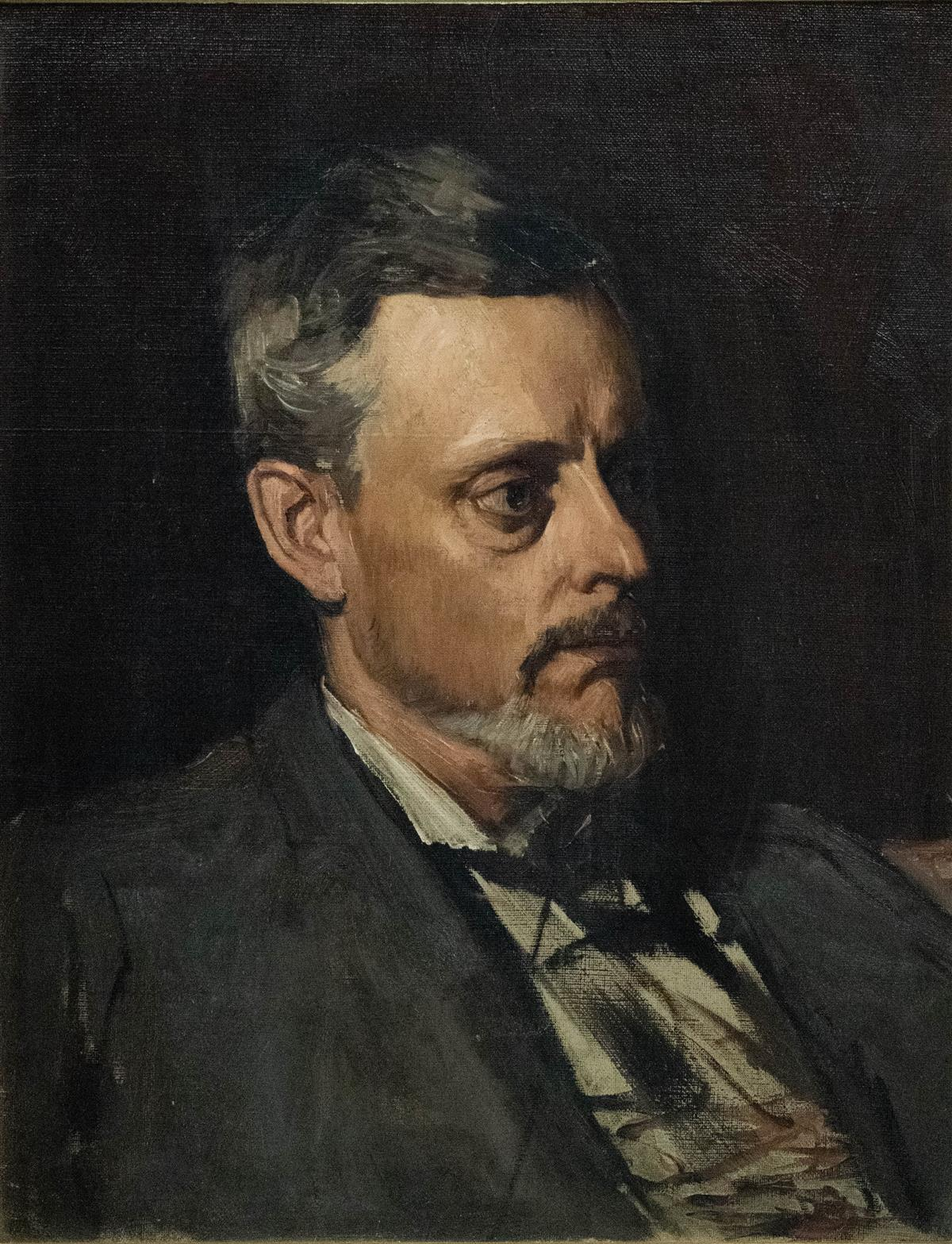 Portrait of Henry Ware Eliot. Oil on canvas: 20 x 16 in. Provenance: Great granddaughter of Henry Ware Eliot